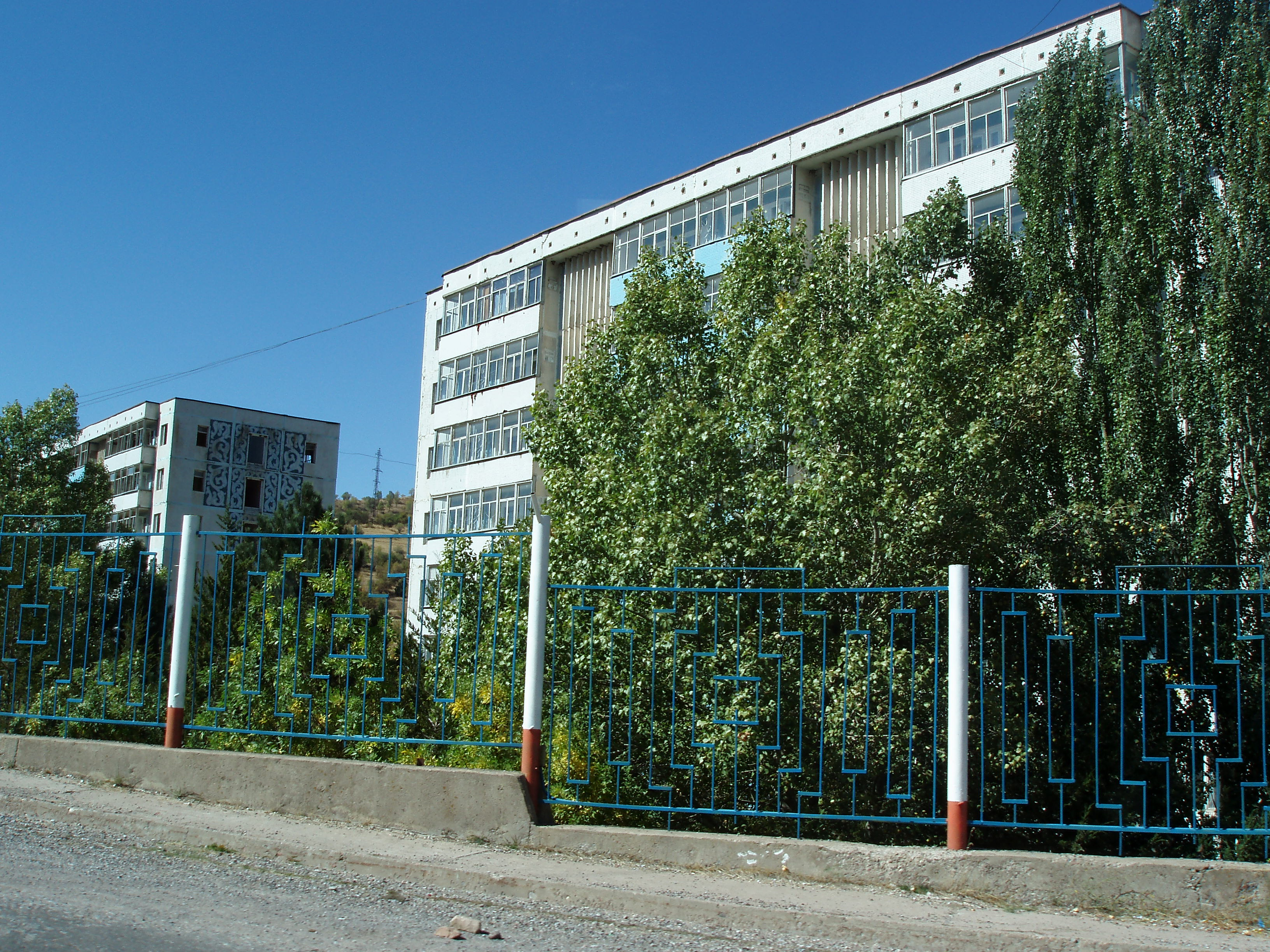 Soviet hotel in Chimgon, Eastern Uzbekistan